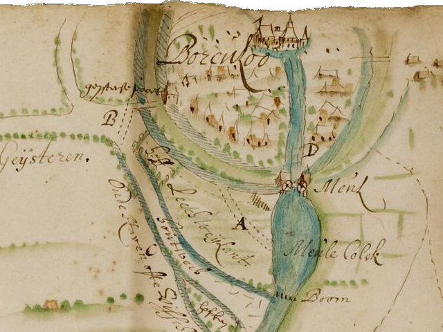 City and castle of Borculo, Part of bigger map:"Little map of the new Mill....Lokation between Vorculo en Eijbergen"